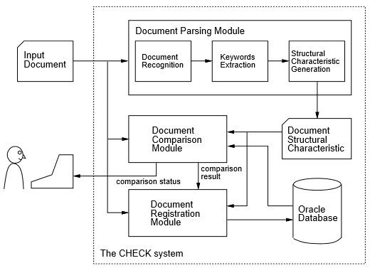 check